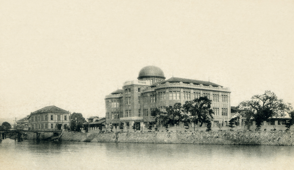 Hiroshima Commercial Museum